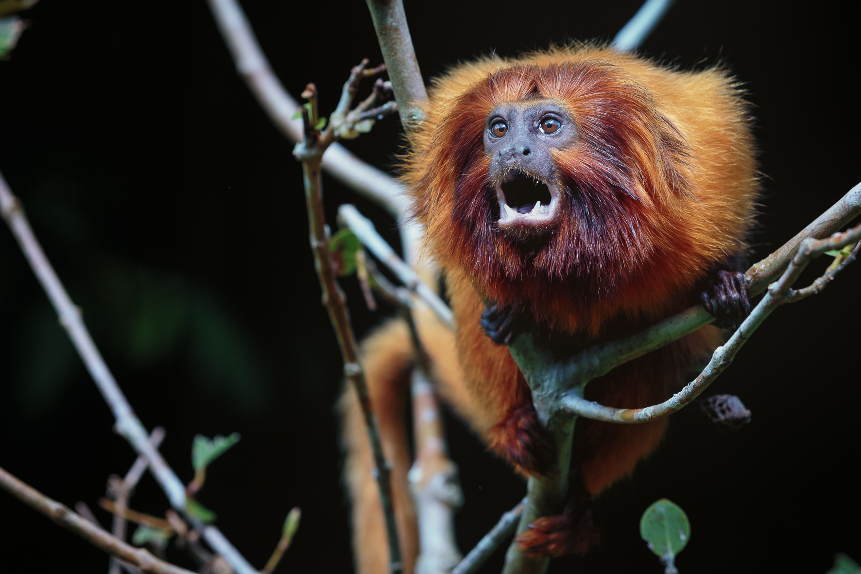 A golden lion tamarin (Leontopithecus rosalia) in Reserva Biológia Poço das Antas, Rio de Janeiro, Brazil.